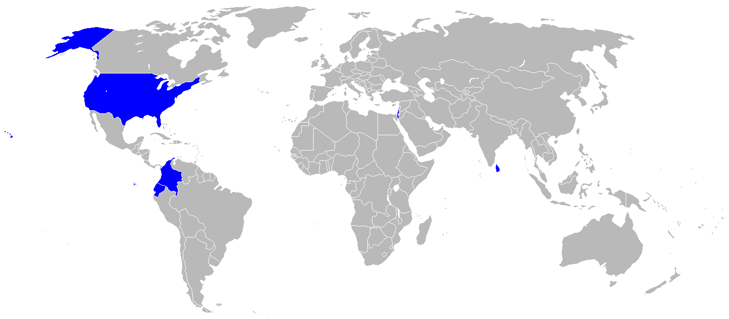 IAI Kfir users